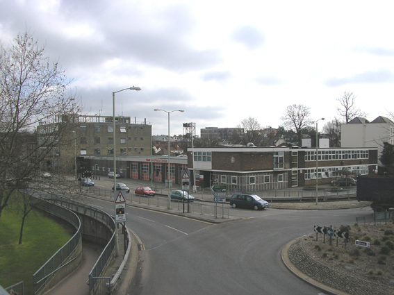 Fire station in Upper Bridge Street Photo taken from the city wall. The right hand exit on the Riding Gate roundabout leads to the Old Dover road.